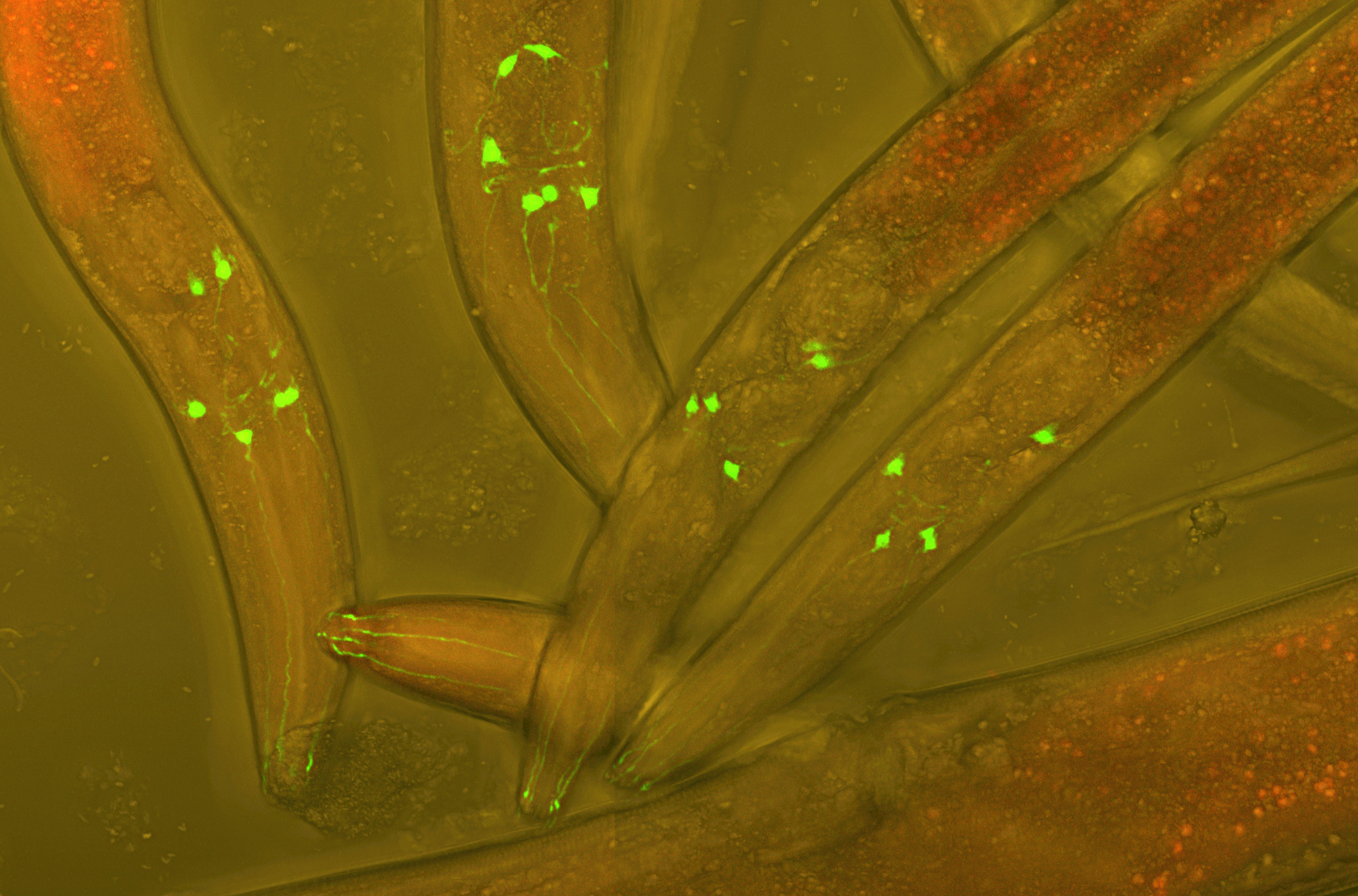 Alive Caenorhabditis elegans worms, who have GFP (green fluorescent protein) inserted into their neurons to visualize neural development in a living worm. Differential interference contrast micrograph + fluorescence.